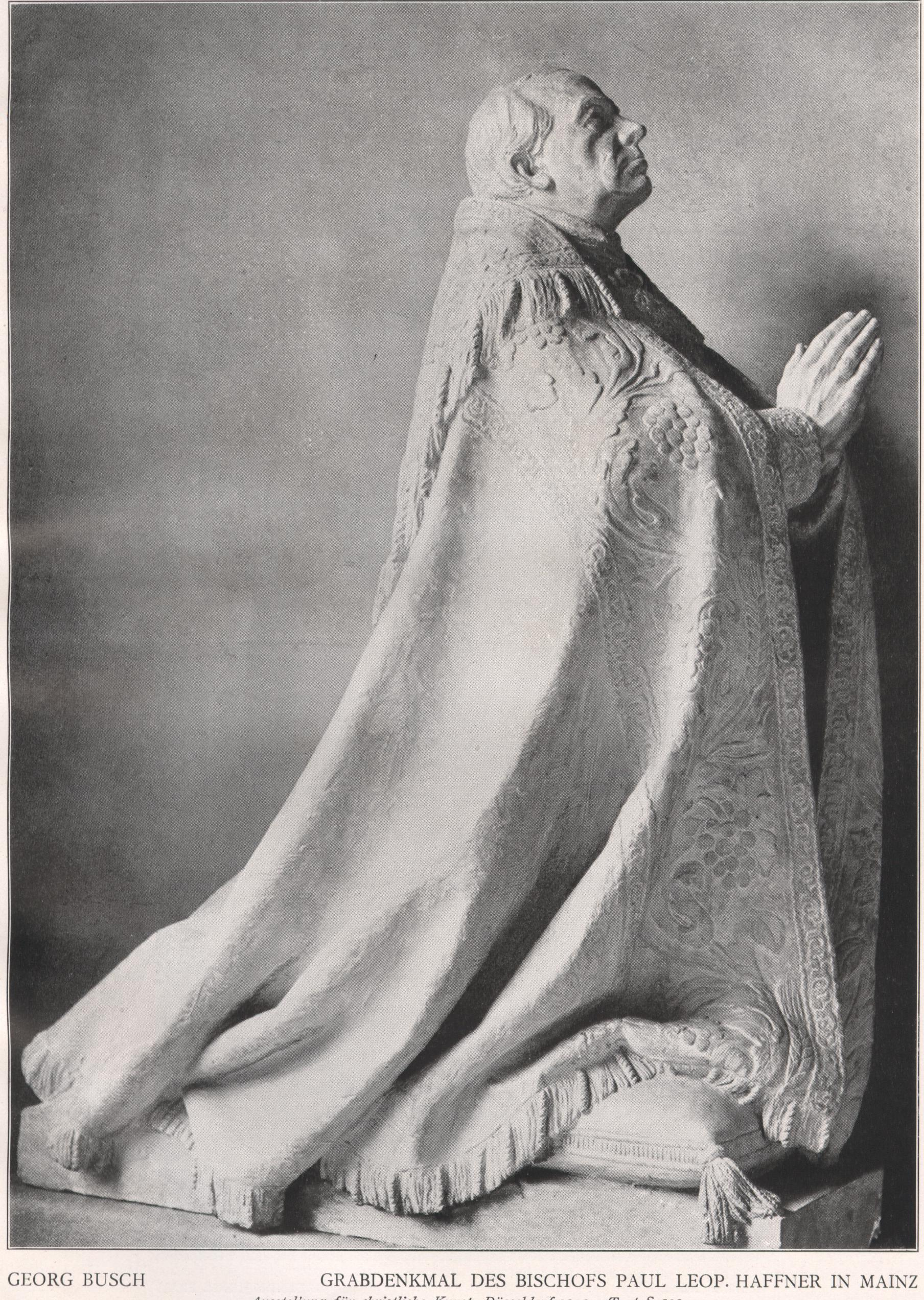 Bishop Paul Leopold Haffner, Mainz, tombstone 1901